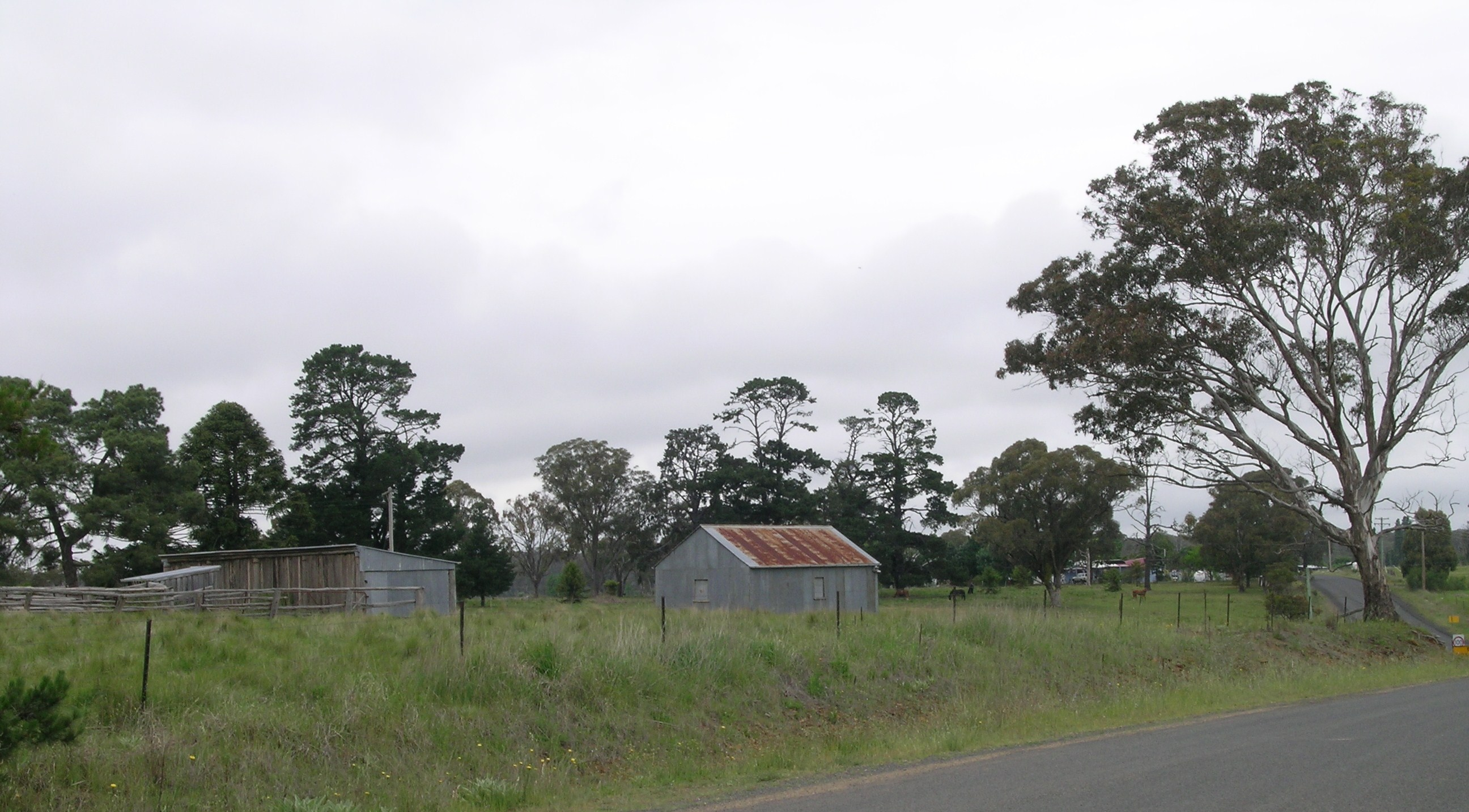 Invergowrie, NSW